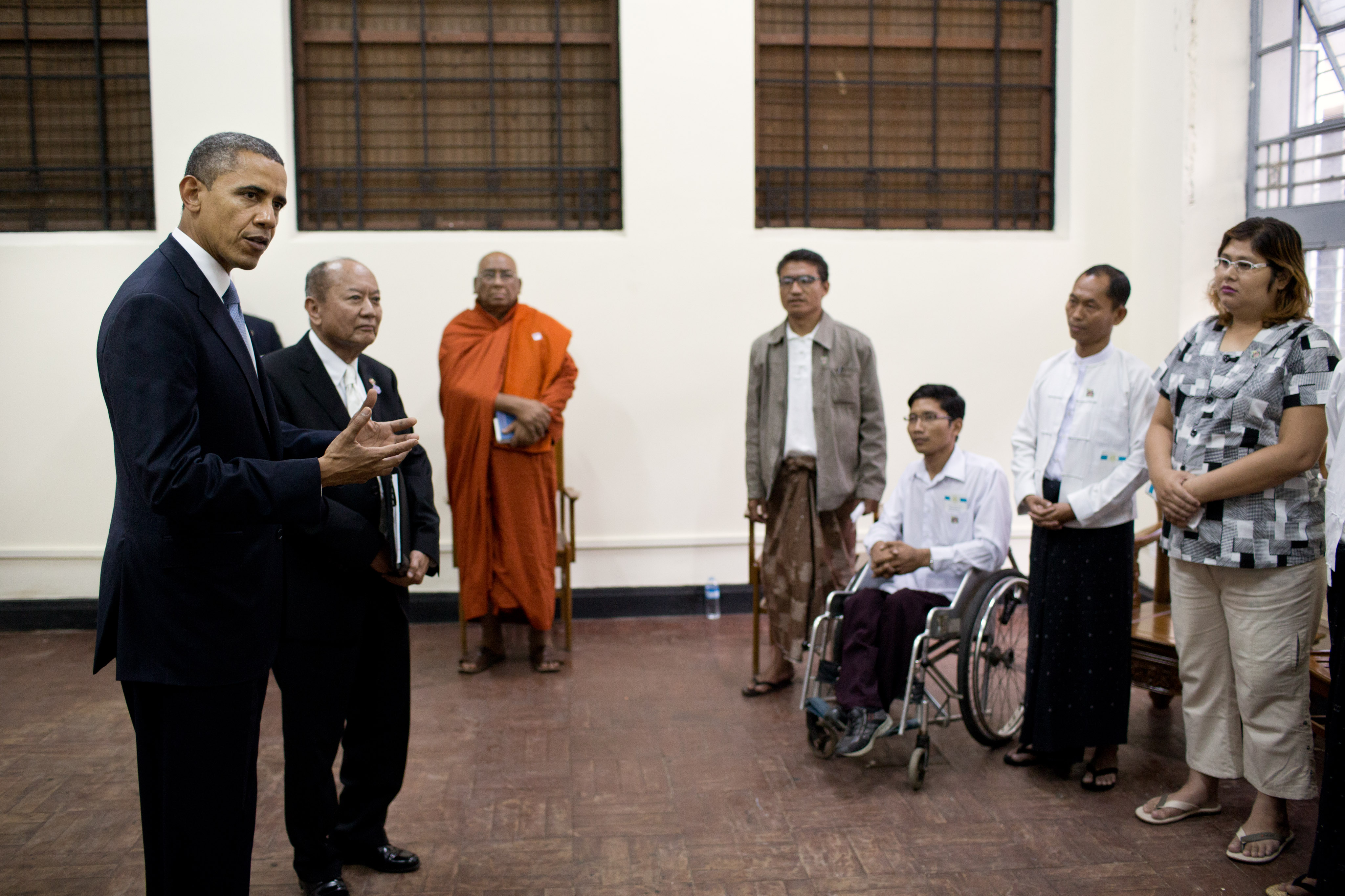 United States President Barack Obama talks with human rights advocates, former political prisoners, and religious leaders before delivering remarks at the University of Yangon in Rangoon on 19 November 2012.